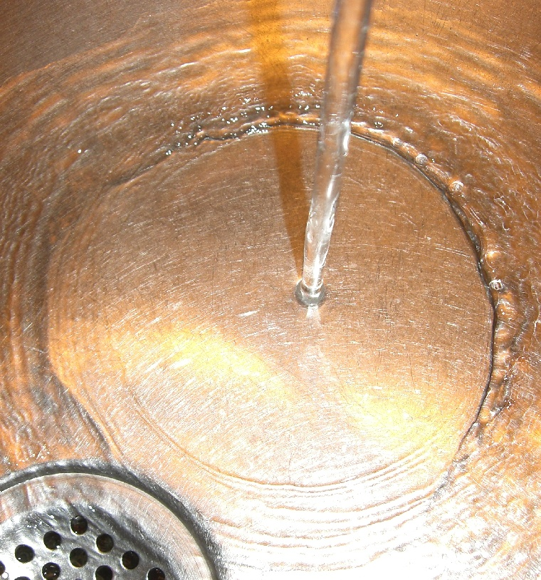 Shock wave in the kitchen sink.